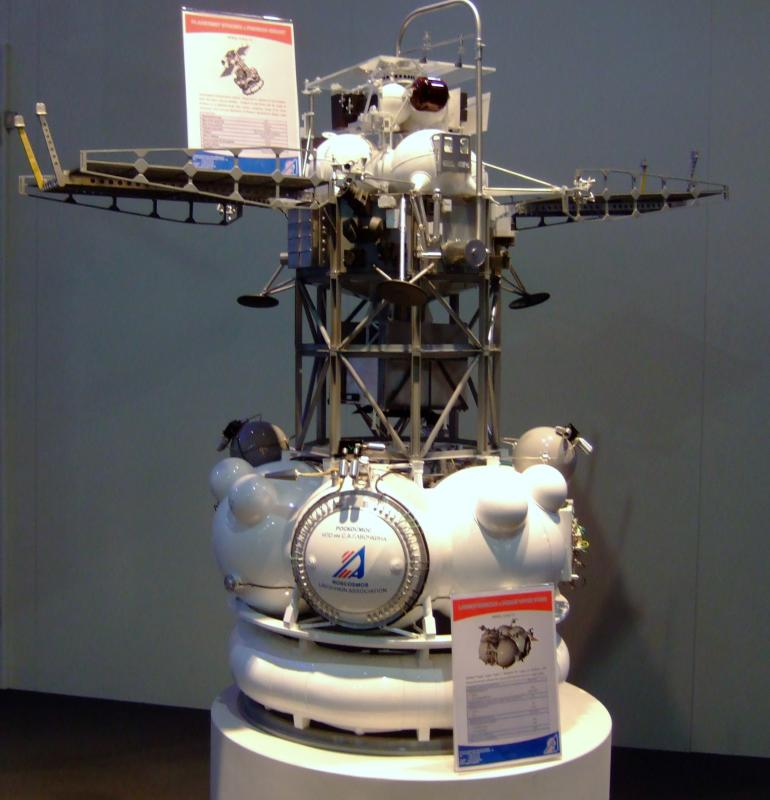 Russian Fobos-Grunt probe with the upper stage Fregat-SB.